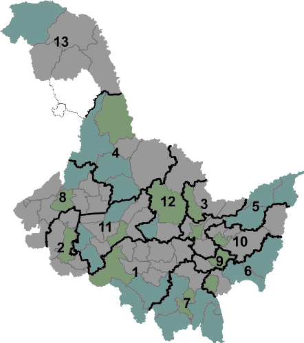 Map of prefectures of Heilongjiang Province